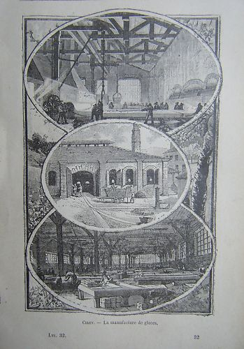 verrerie au XIXe siècle